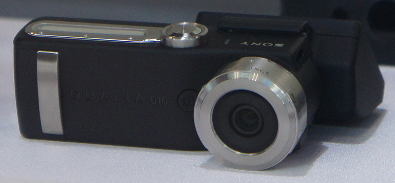 CP+ 2011: 2003 Sony Qualia 016 Q016-WE1